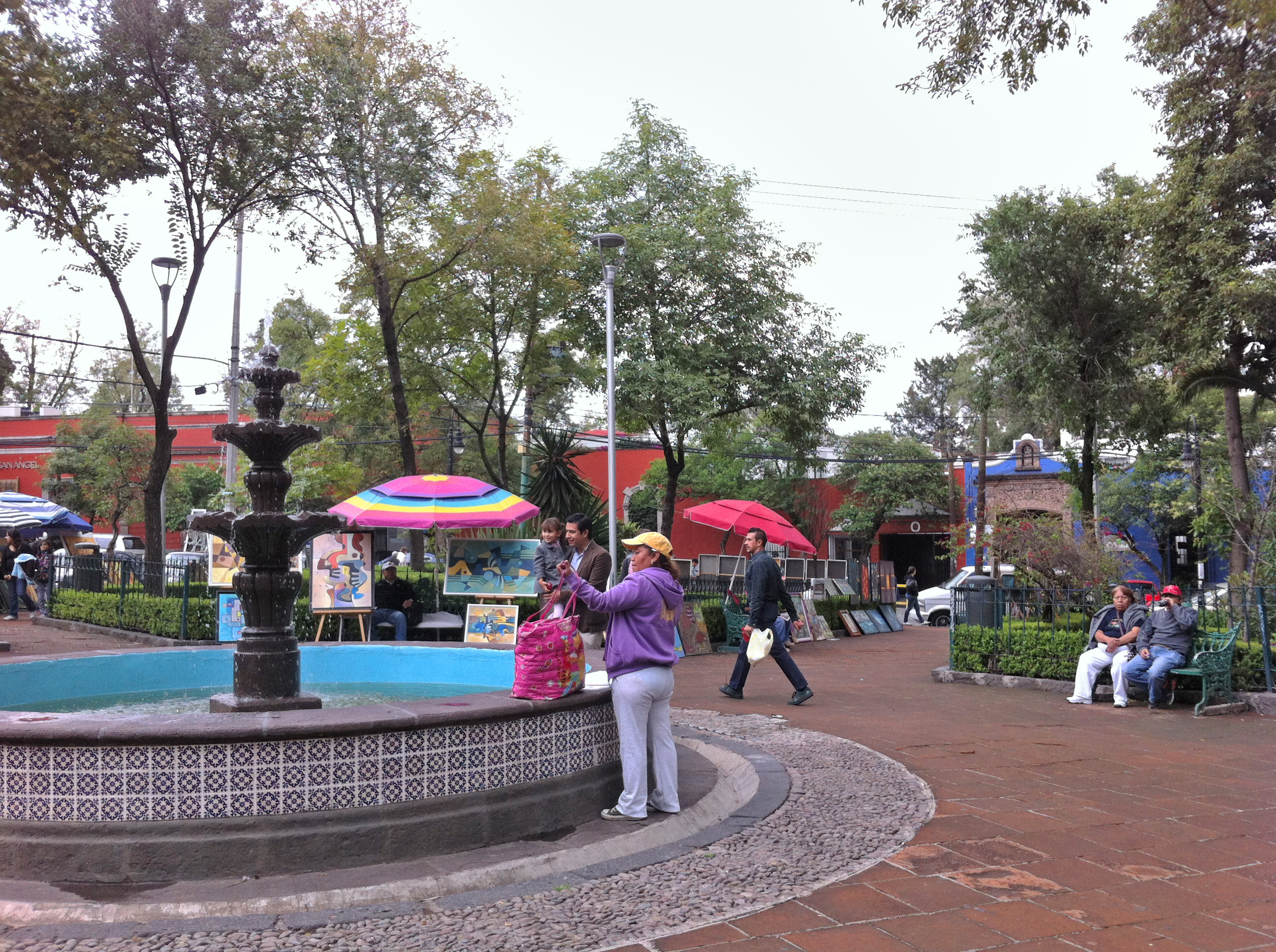 Art's garden in San Ángel, México City, where painters sell their art.